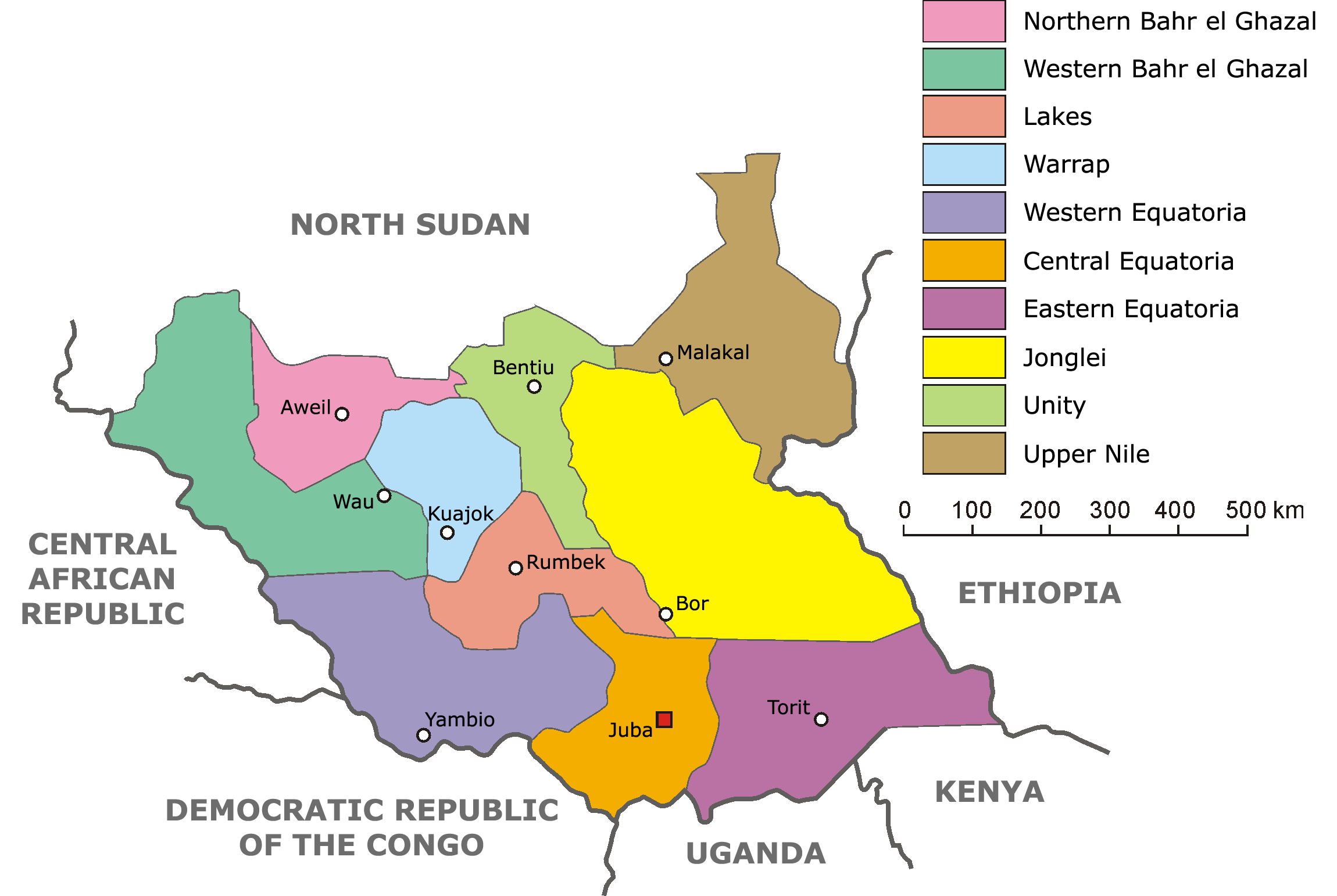 Map of the States of South Sudan. Credits Adapted from Polish-language version by Aotearoa.